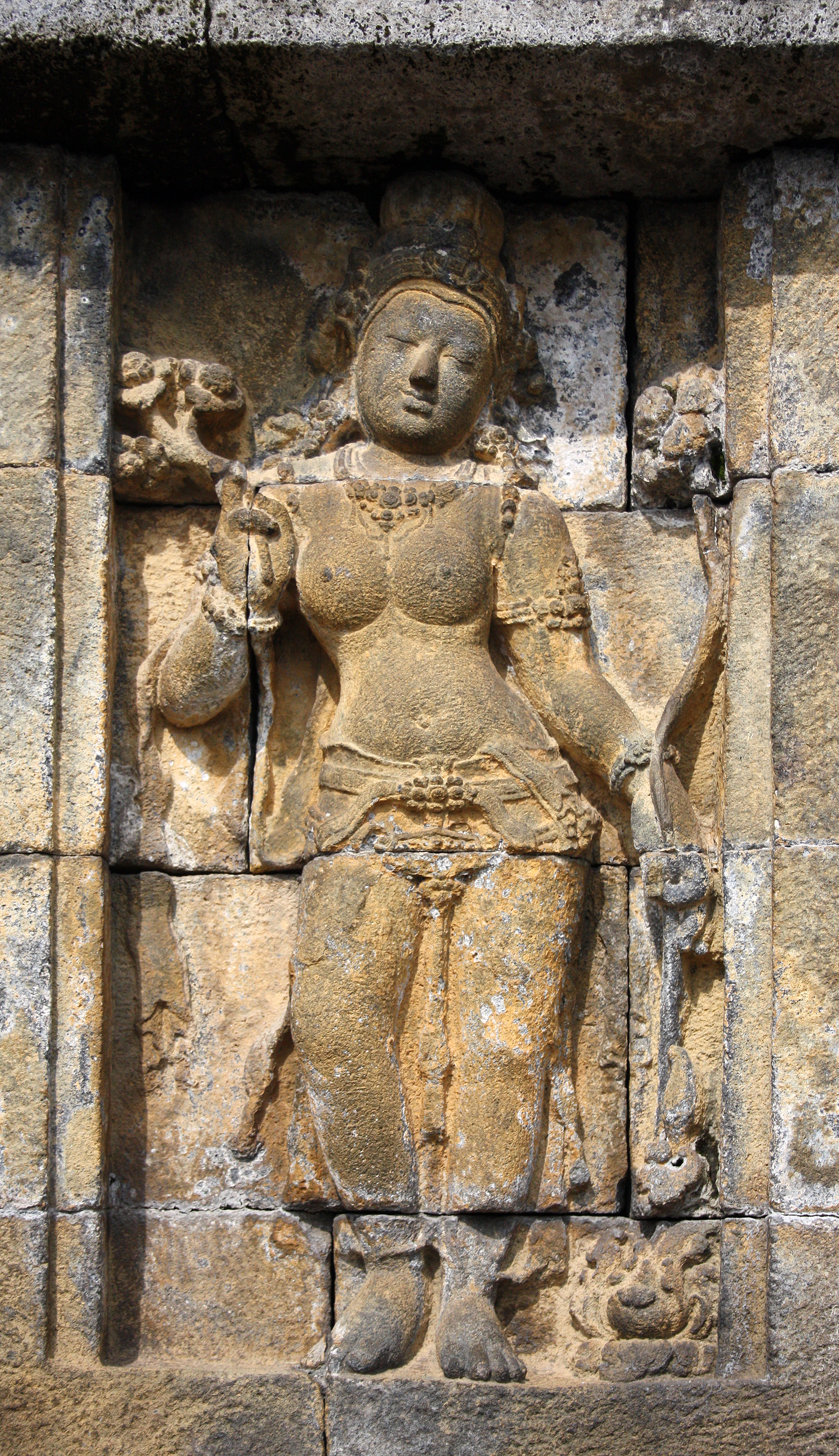 The female figure probably Tara or Apsara Surasundari holding kumuda (white lotus) and a flower. Bas-relief of lower outer wall of 8th century Borobudur, Central Java, Indonesia.